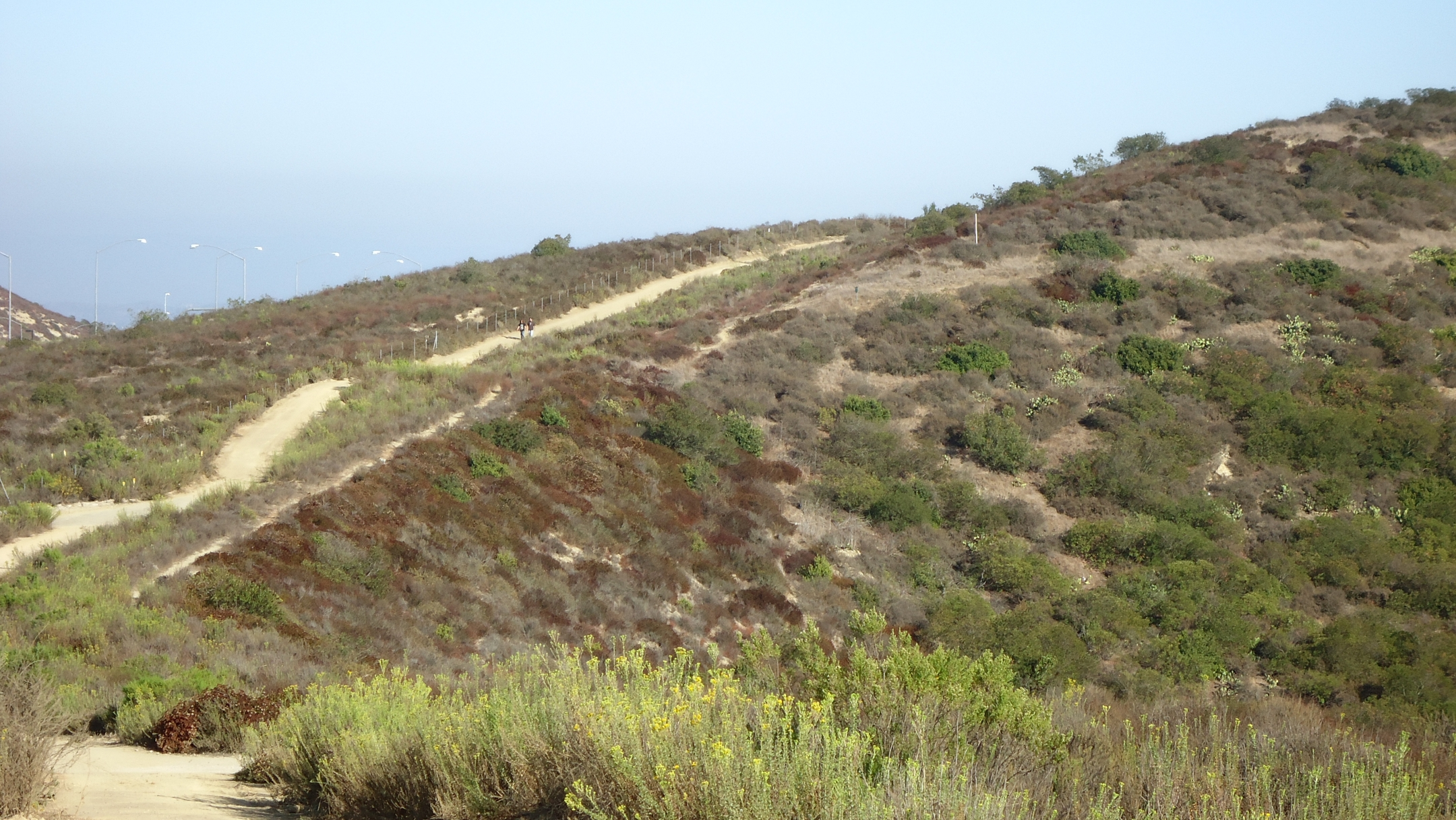 Boomer Ridge Trail by Gate #9 at Laguna Coast Wilderness Park (Crystal Cove State Park)